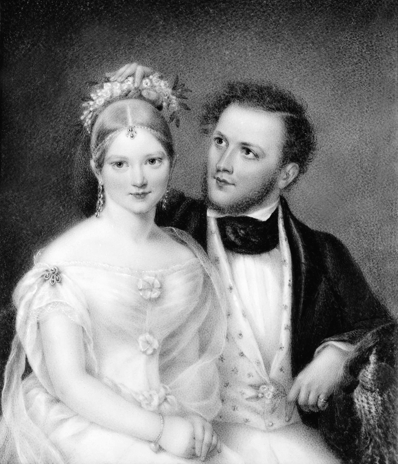 Anne Hall, Mr. and Mrs. Samuel Ward (Emily Astor), 1837